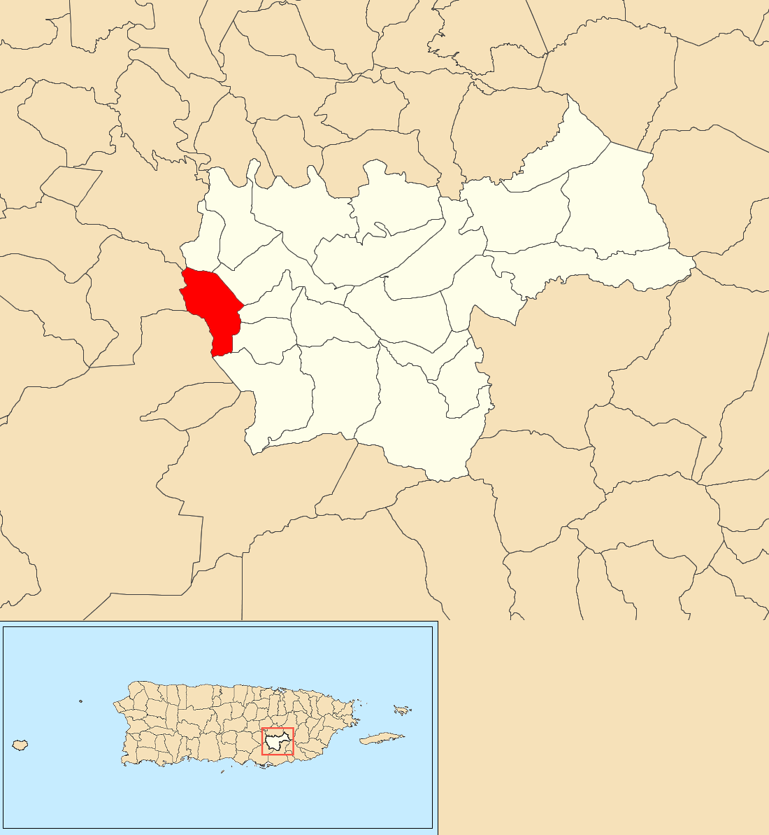 Pasto Viejo, Cayey, Puerto Rico locator map